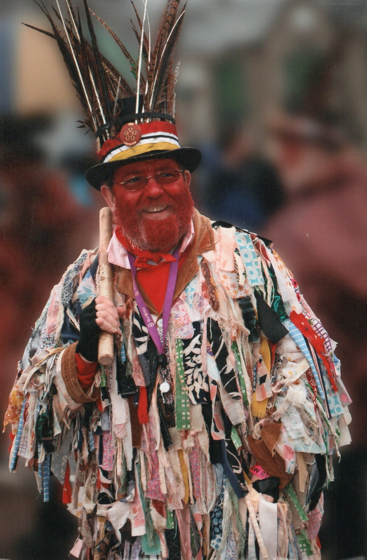 A morris dancer with painted disguise, traditional along the border with Wales.